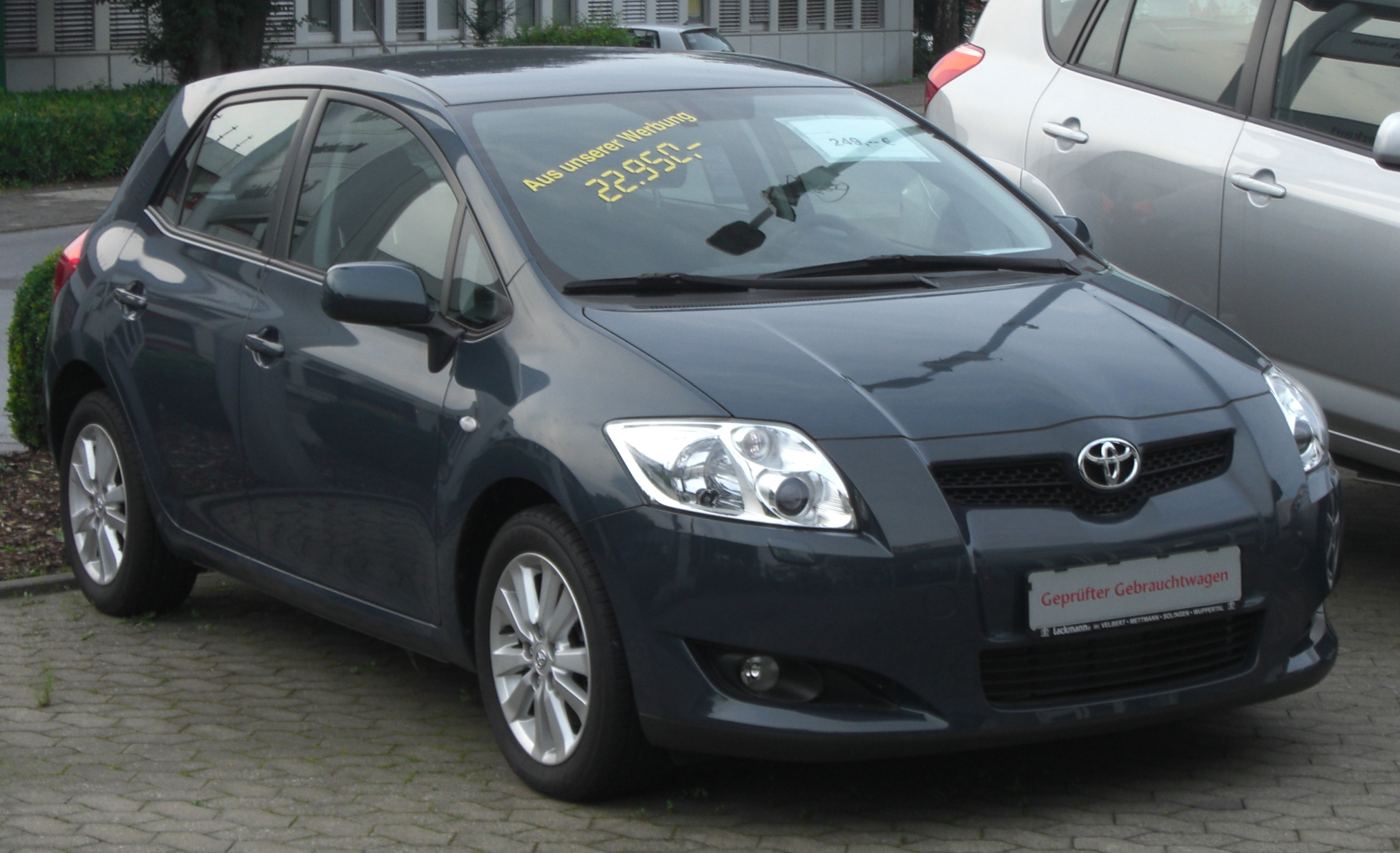 Toyota Auris